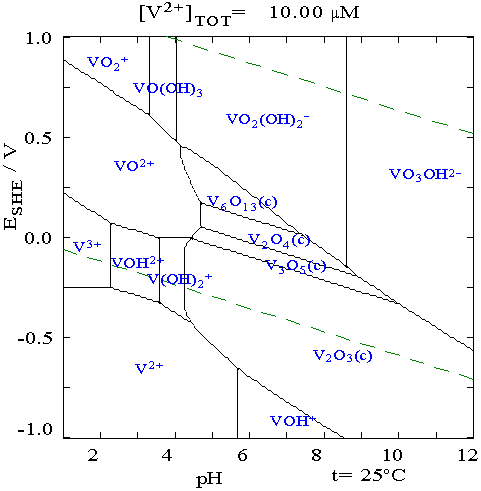 Pourbaix diagram of vanadium